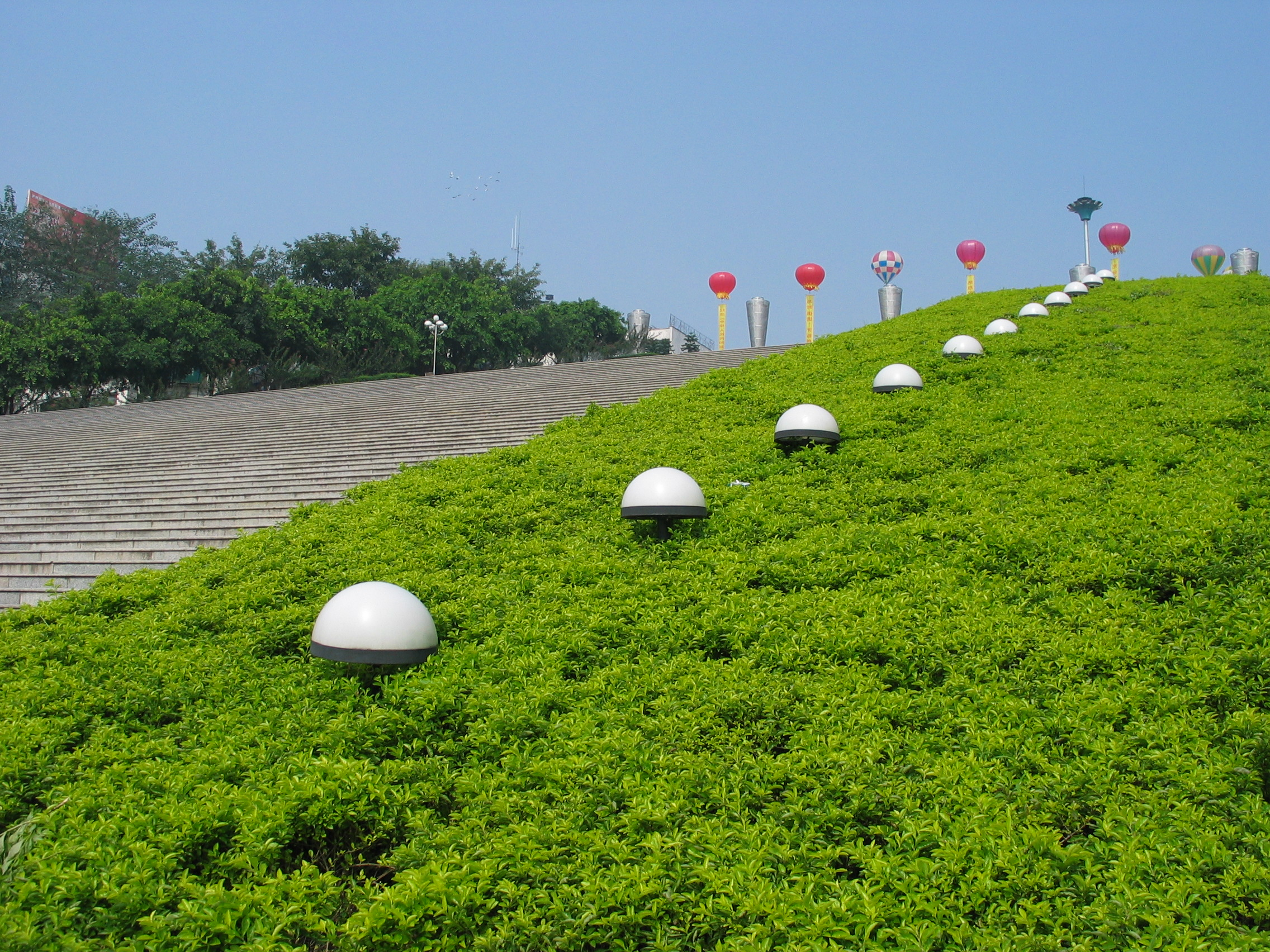 a picture of datibu square in luzhou